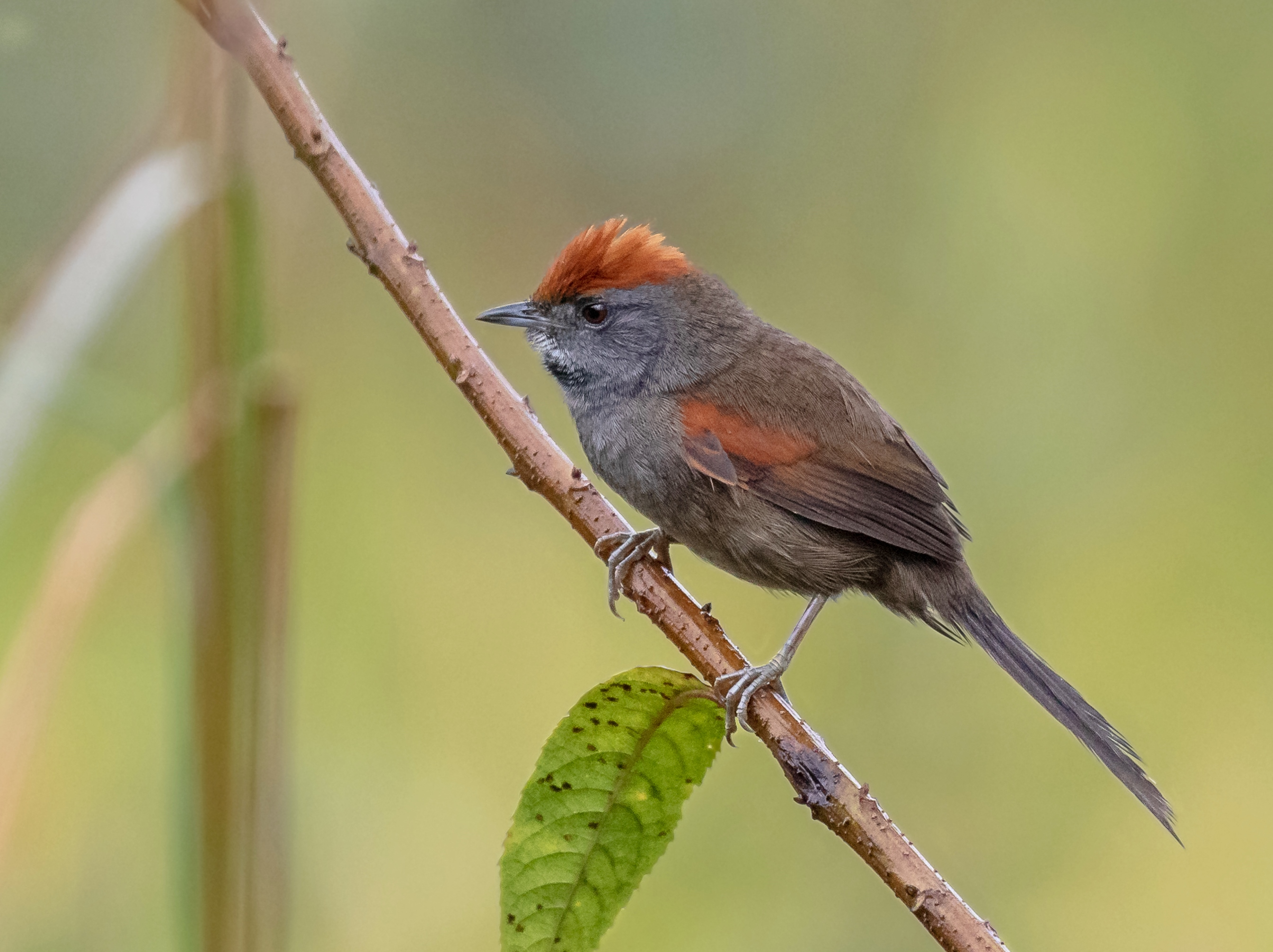 Chicli Spinetail; Bertioga, São Paulo, Brazil